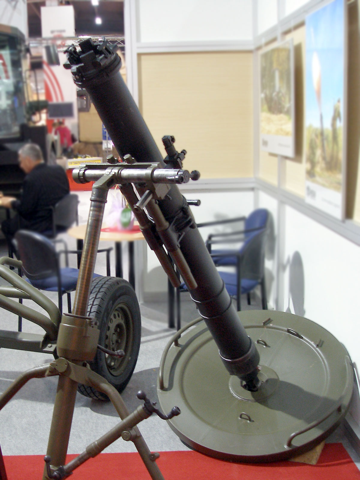 Polish 120mm mortar